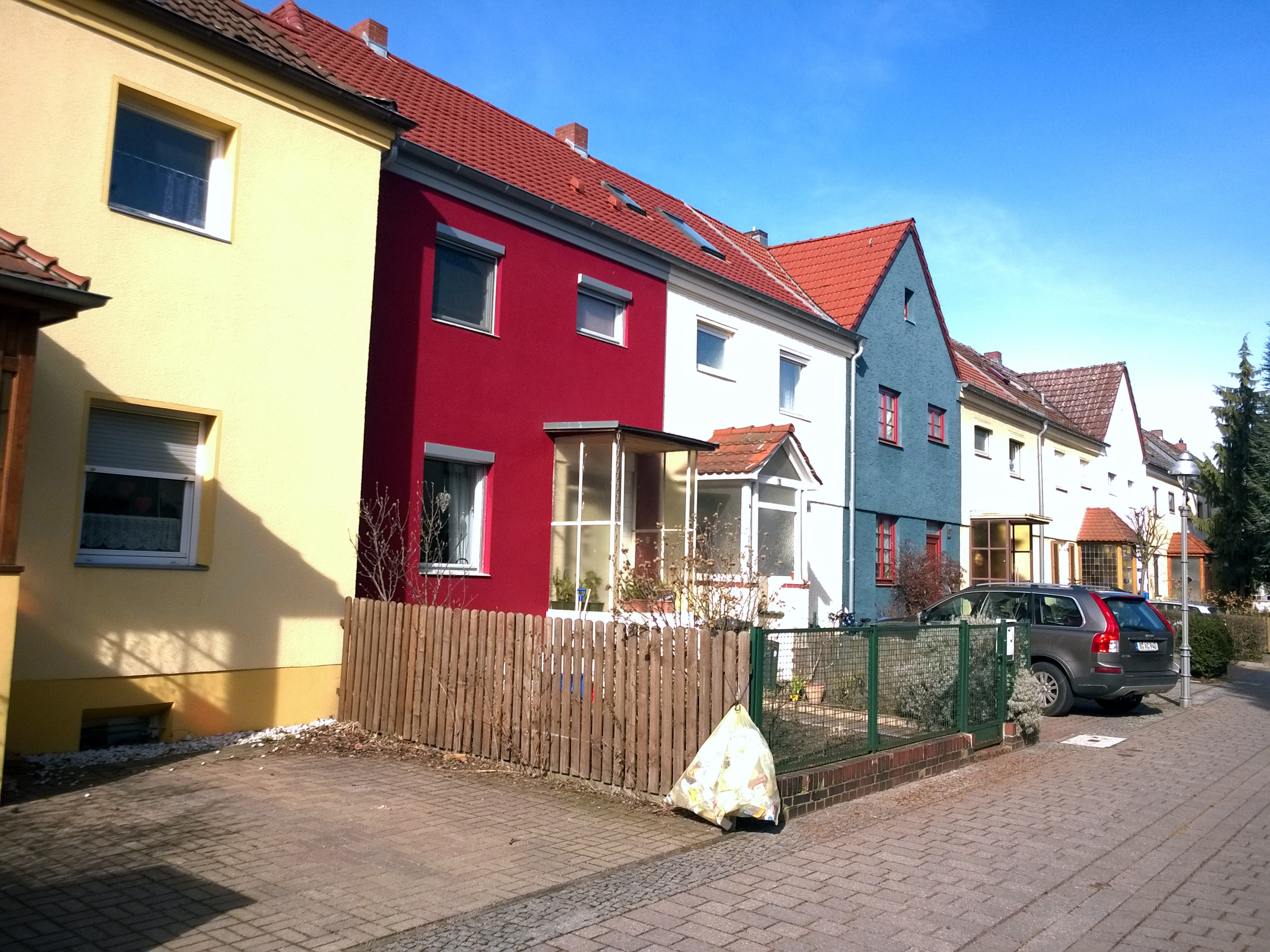 Reinickendorf Luisenweg Siedlung Luisenhof